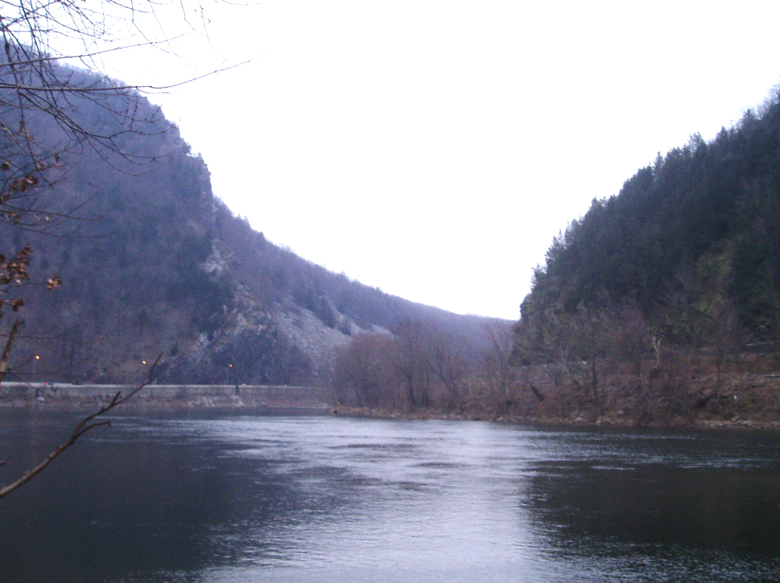 Delaware Water Gap, February 2006.